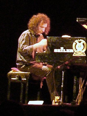 the Italian pianist Stefano Bollani while performing with the comedy band Banda Osiris